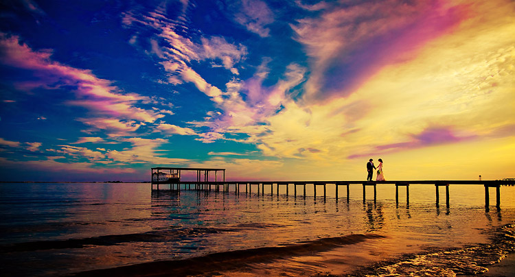 A wedding photo session at sunset, Florida, USA